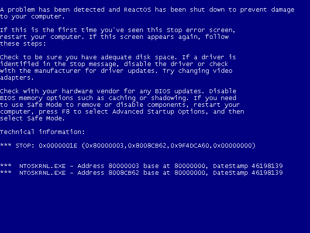 Created by Joost de Meij, screenshot taken from ReactOS 4.0 SVN in Qemu